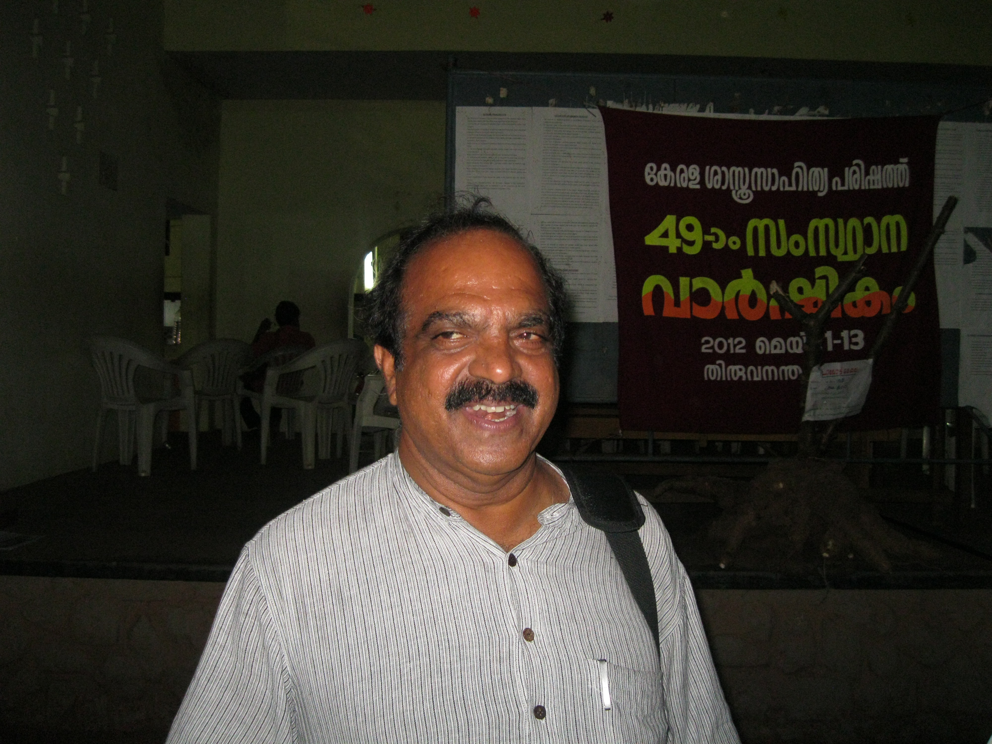 K. K. Krishnakumar, BGVS National President and KSSP activist